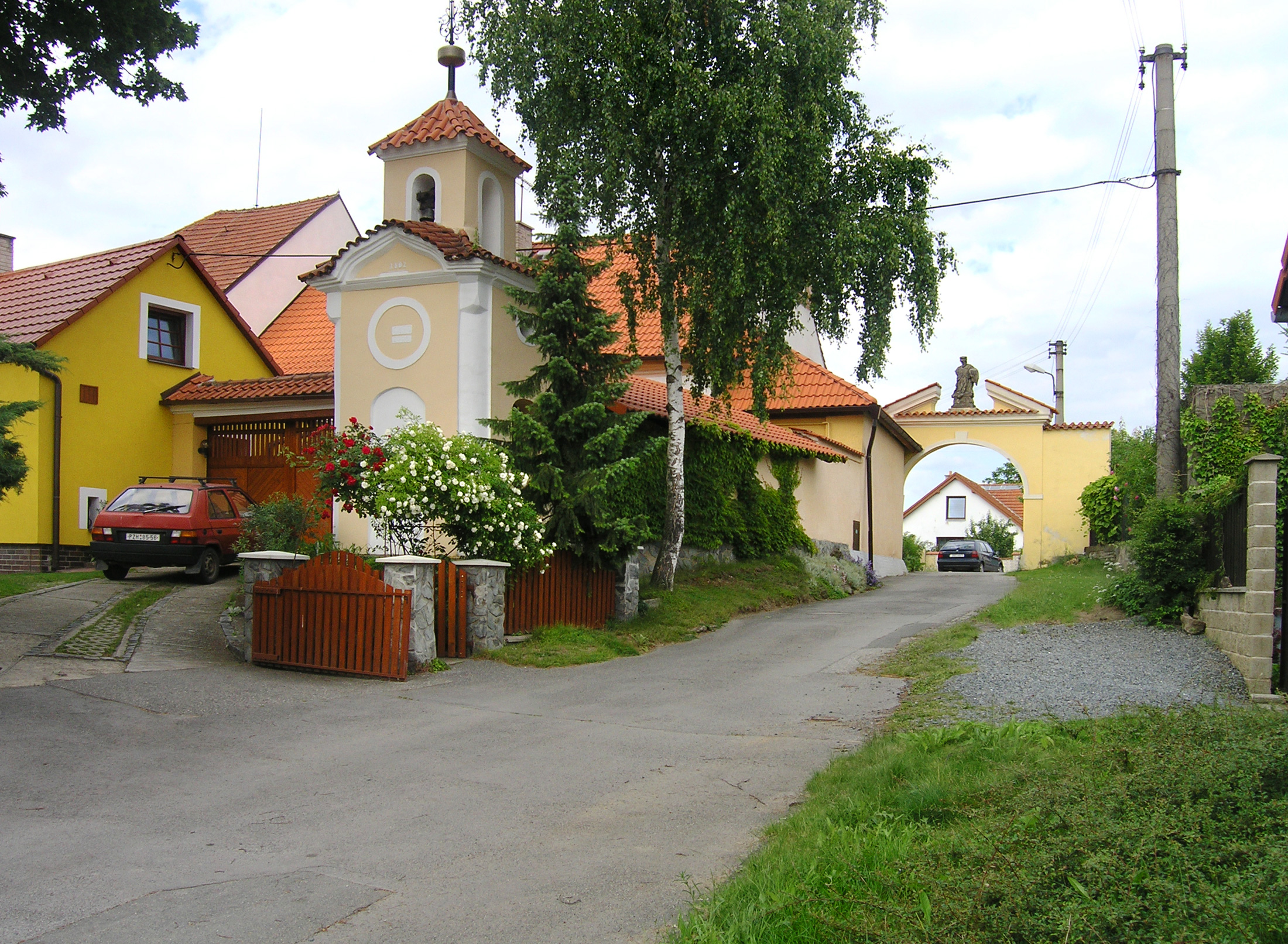 Old farm in Na Slovance street in Kněževes village, Czech Republic